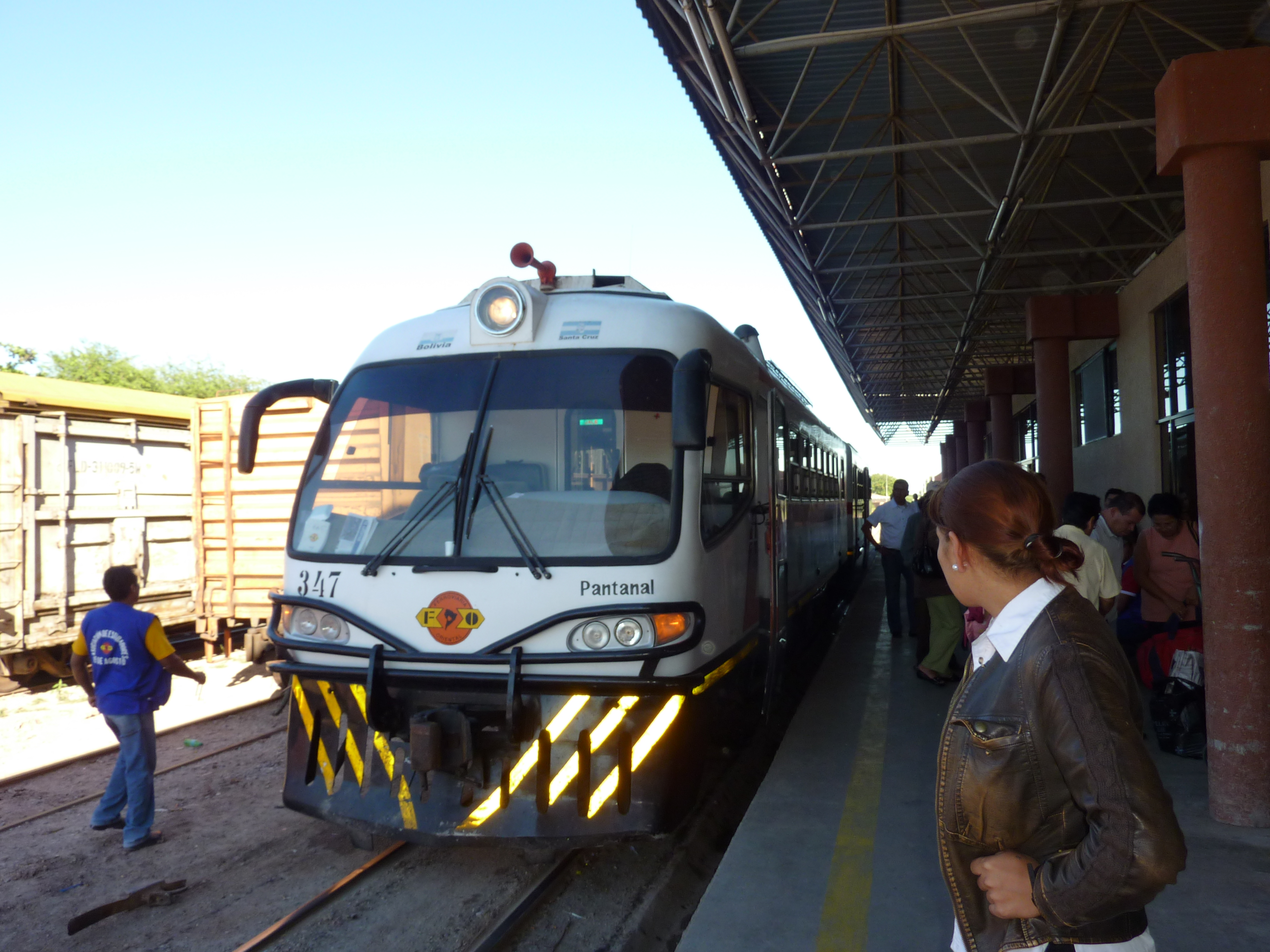 Ferrostaal Railcar Ferrocarril Oriental S.A. Railcar, rebuilt and redesigned entirely by the Master Workshops of Guaracachi, located in Santa Cruz de la Sierra, Bolivia, based on a Ferrostaal railbus, which was already in use for several years in various passenger services. It has some interesting modifications such as the adaptation of a servo-clutch, synchronous Volvo gearbox, instruments included in the cabin panel, regulatory railway lights and its own bus lights, individual crew lights, optional in-cab air conditioning, ergonomically designed seats, etc. This unit, originally built in 1977 by Ferrostaal with a Cummins NT-855-R4 motor, is an interesting example of how to upgrade equipment with years of antiquity, leaving it practically new with a refreshing design shape and incorporating modern elements of comfort at reasonable costs.